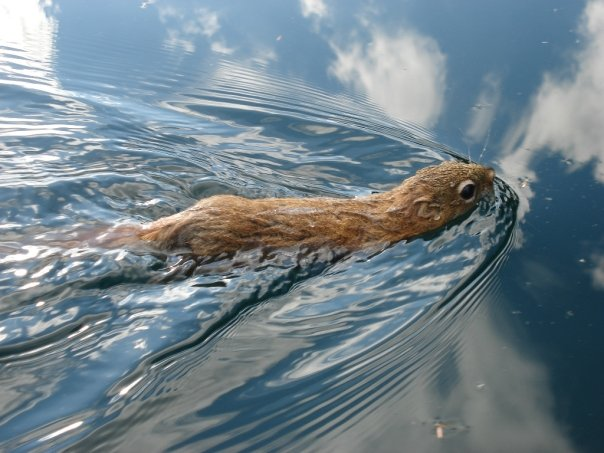 Red squirrel (Tamiasciurus hudsonicus) swimming from peninsula to mainland, on Norway Lake in Killarney Provincial Park Ontario Canada.